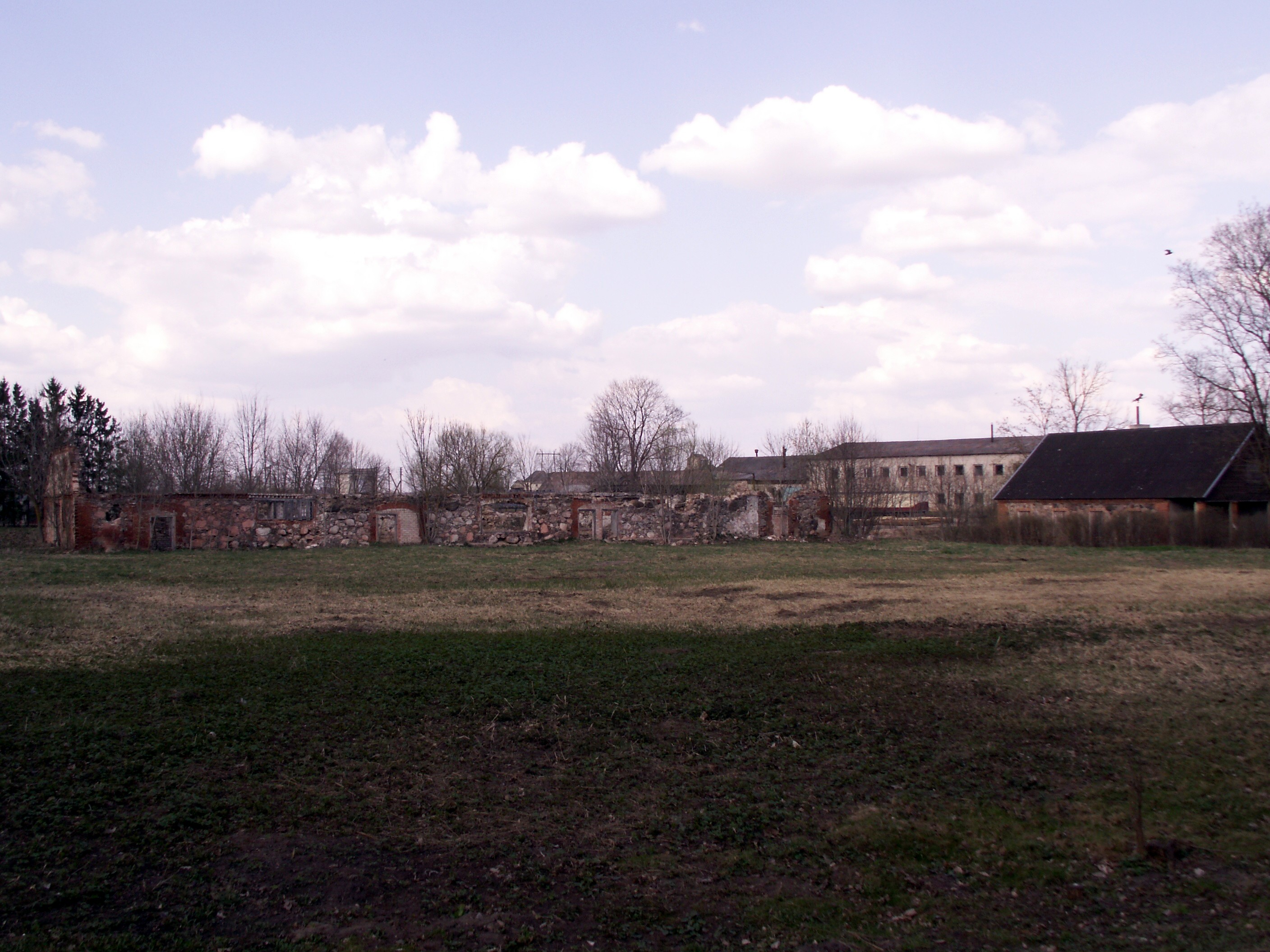 Pagryžuvys manor, Kelmė district, Lithuania